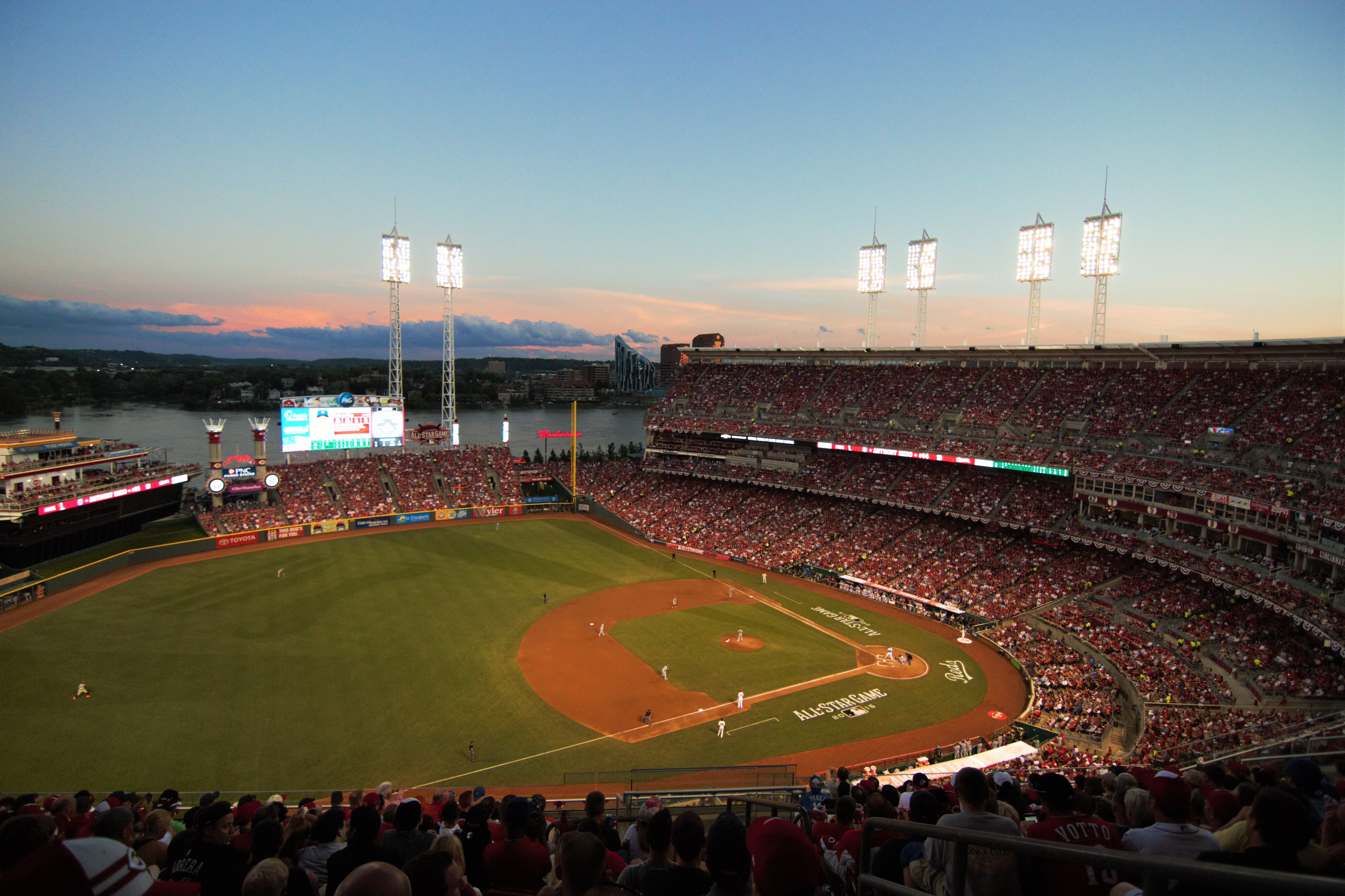 2015 Major League Baseball All-Star Game, Cincinnati, Ohio, USA